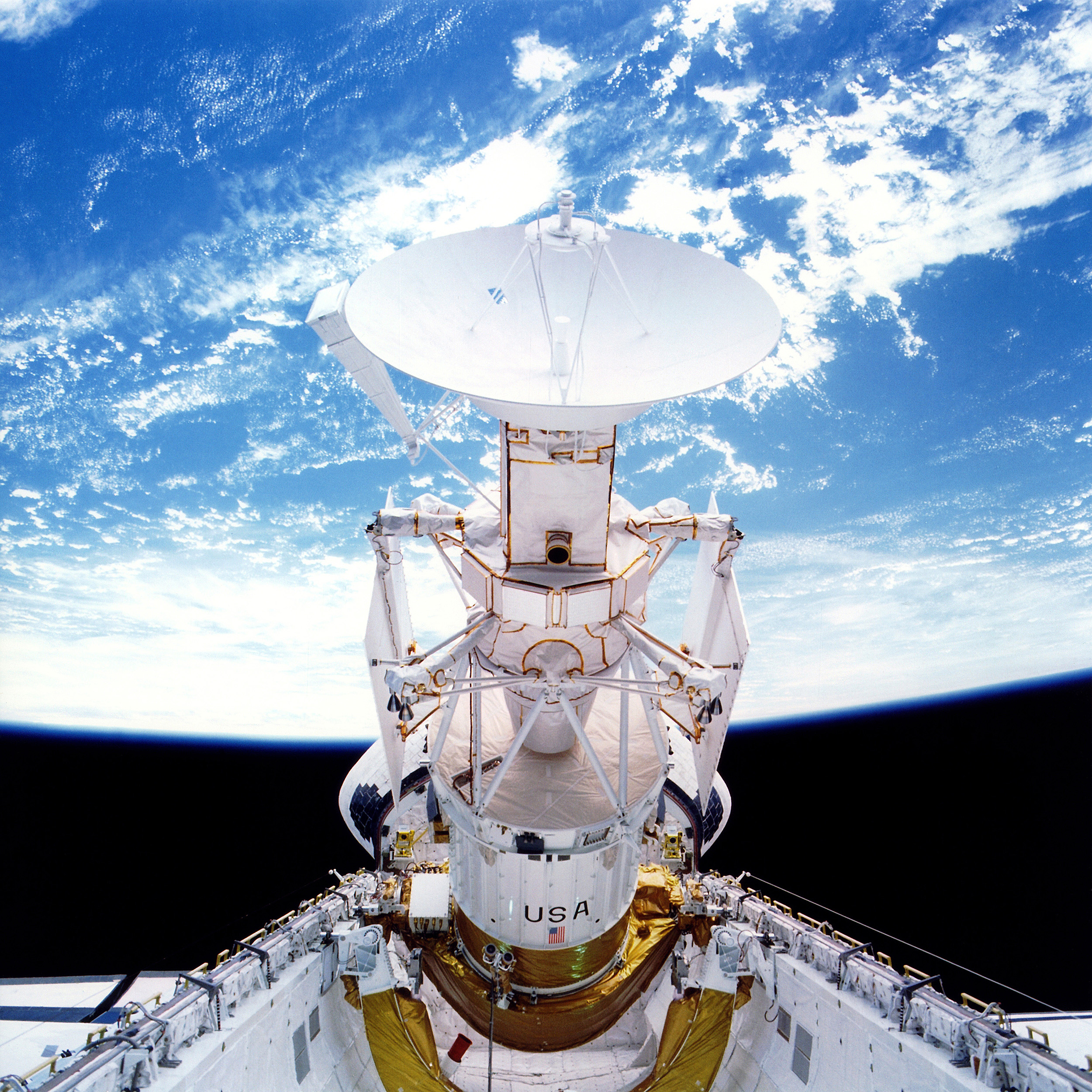 The Magellan spacecraft and its Inertial Upper Stage in the payload bay of Space Shuttle Atlantis during the STS-30 mission.